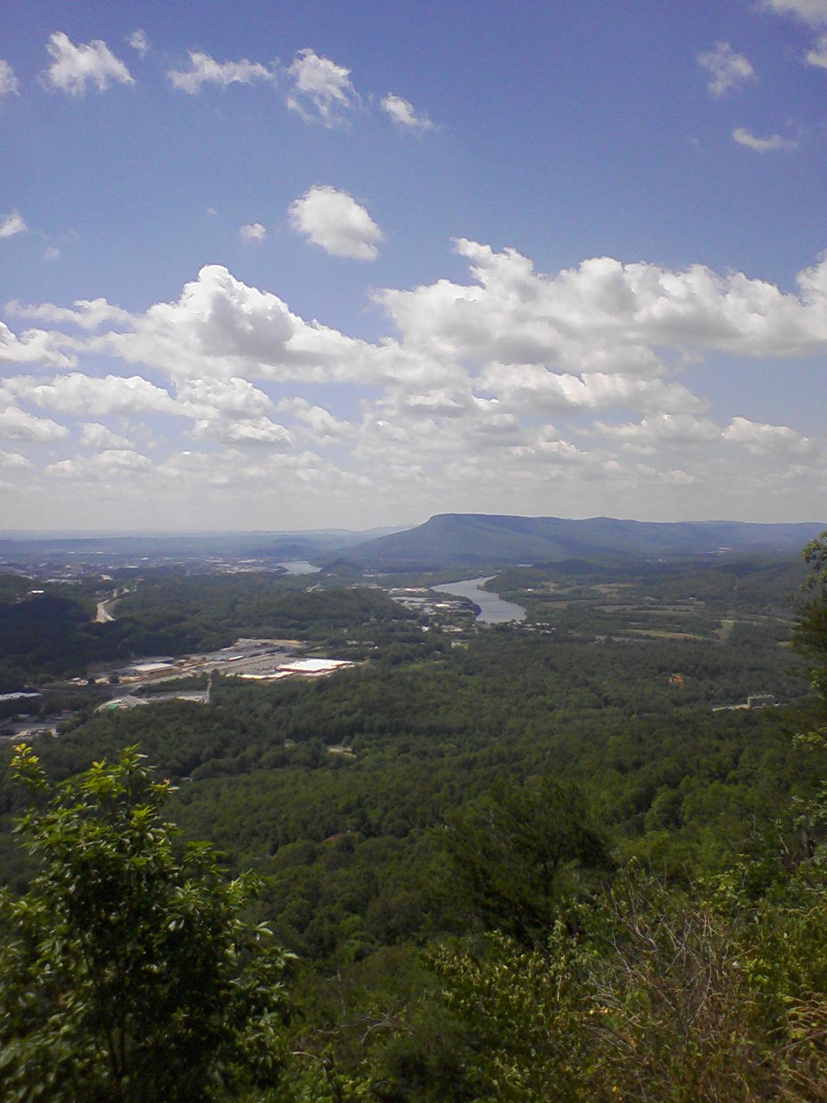 Lookout Mountain, as viewed from Signal Mountain. The photo shows that the mountain is actually a plateau.